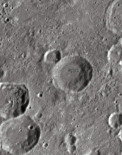 Geber lunar crater as seen from Earth with satellite craters labeled